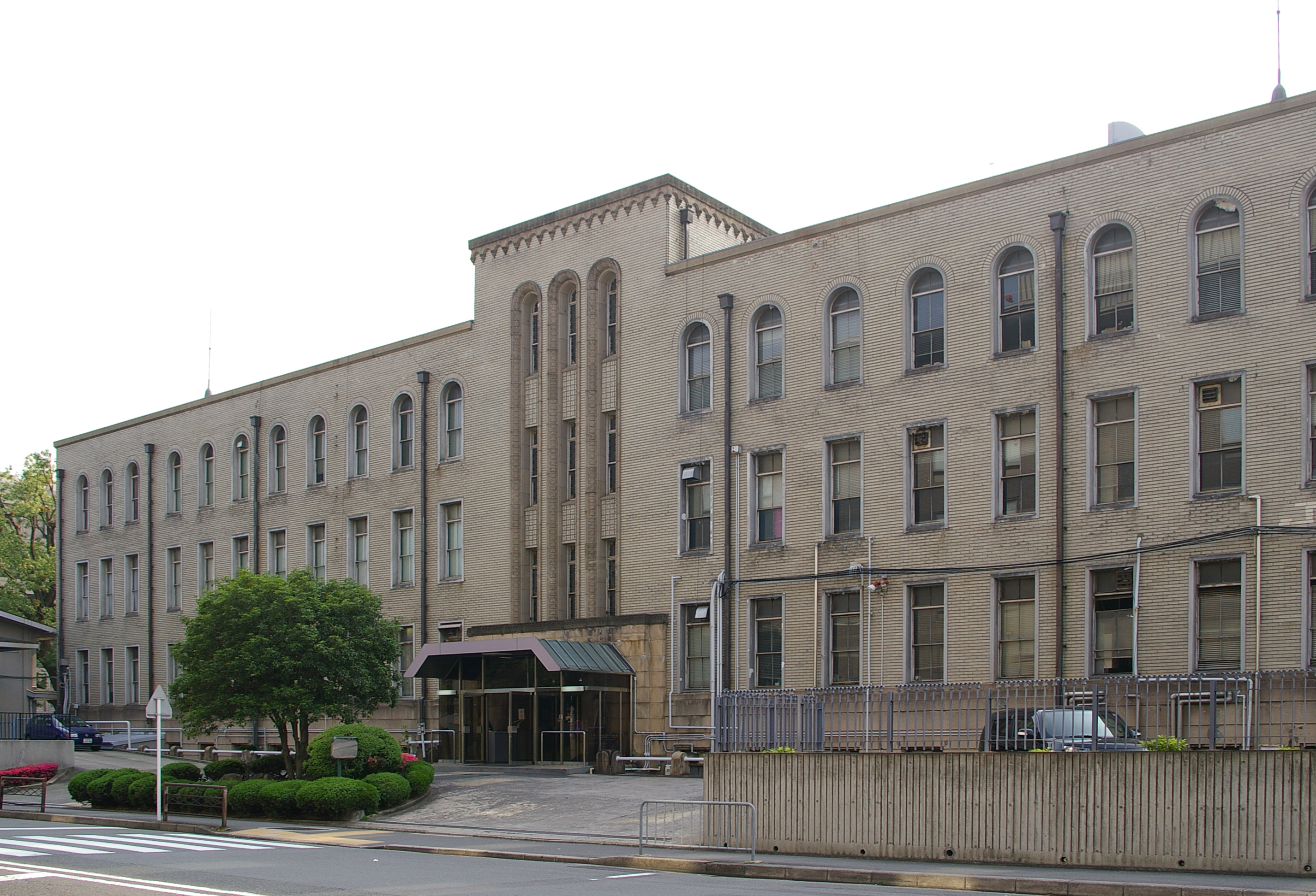 Photograph of Main building of Kyoto Prefectural Police Headquarters in Kamigyo-ku, Kyoto, Kyoto Prefecture, Japan.